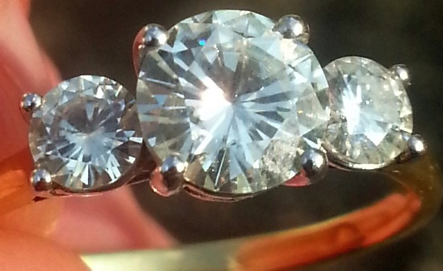 Moissanite engagement ring in natural light